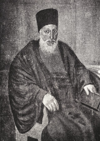 Ecumenical Samuel I - National Documentation Center, Thessalian Chronicles, 1907, p. 215a